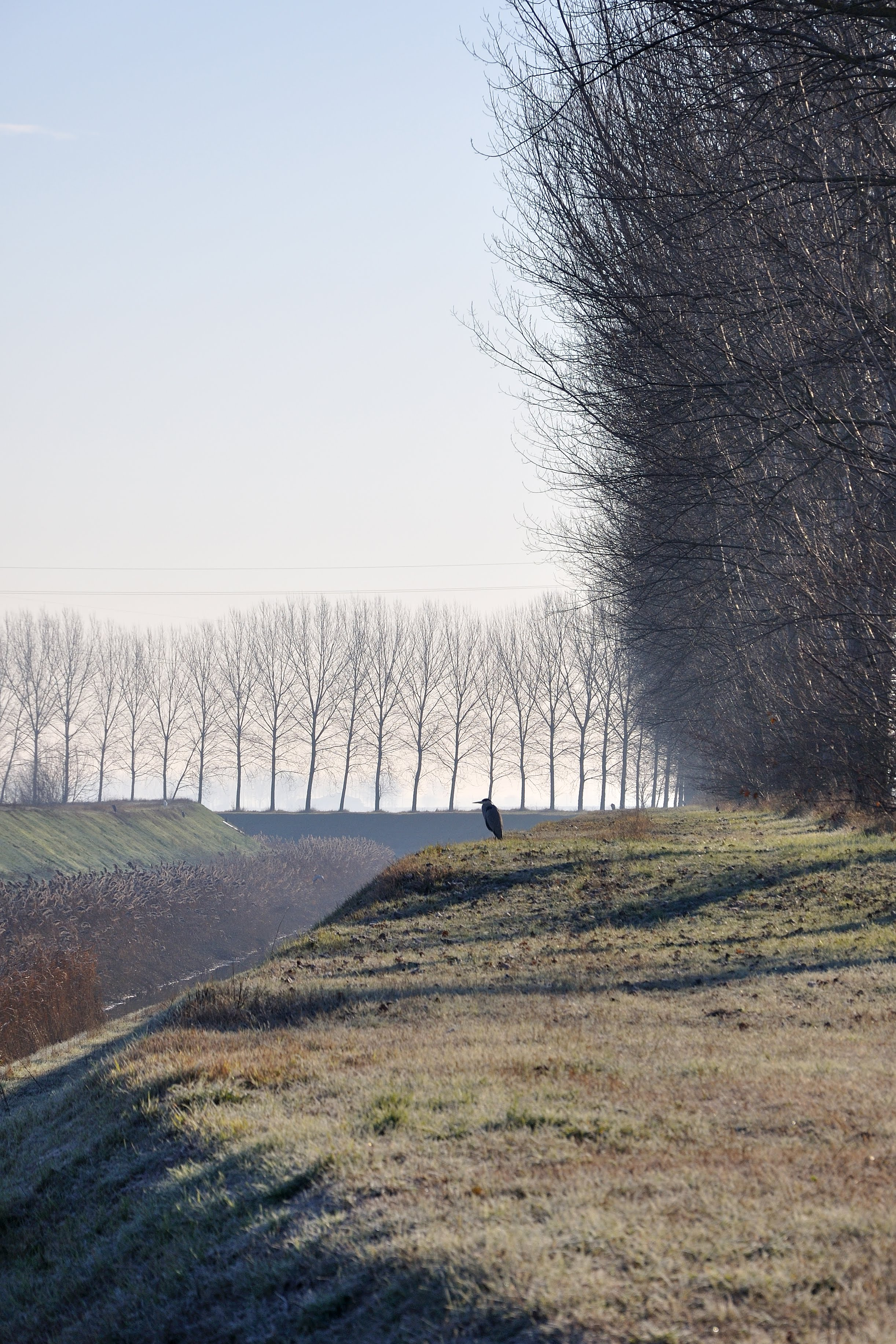 Bird on the Zena Canal - Nonantola (MO) Italy - 22 December 2012